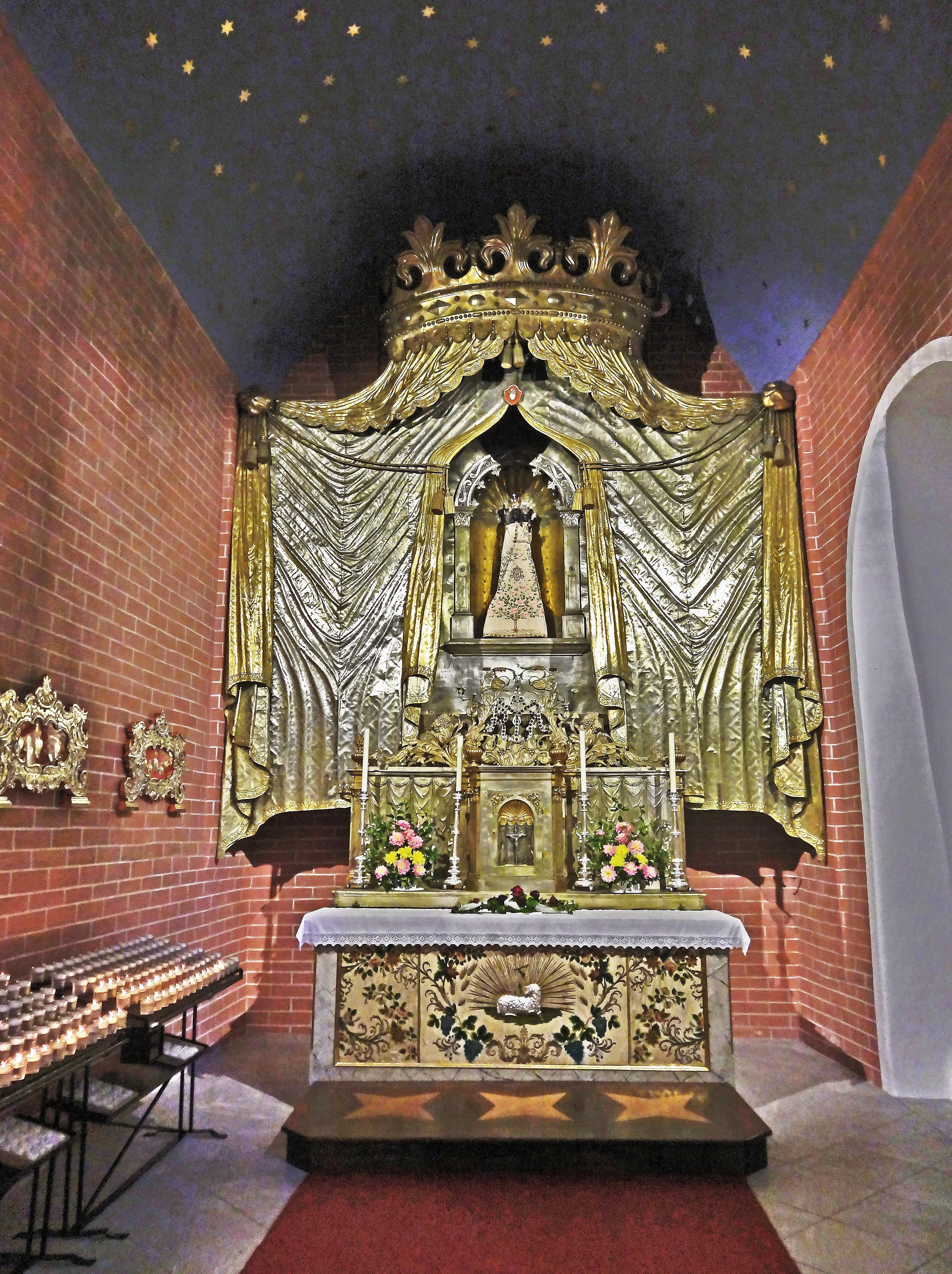 Basilica of Maria Loreto (St. Andrä im Lavanttal), view of the chapel of Loreto Dieses Bild wurde anlässlich des österreichischen Tags des Denkmals 2014 in Kärnten eingereicht.